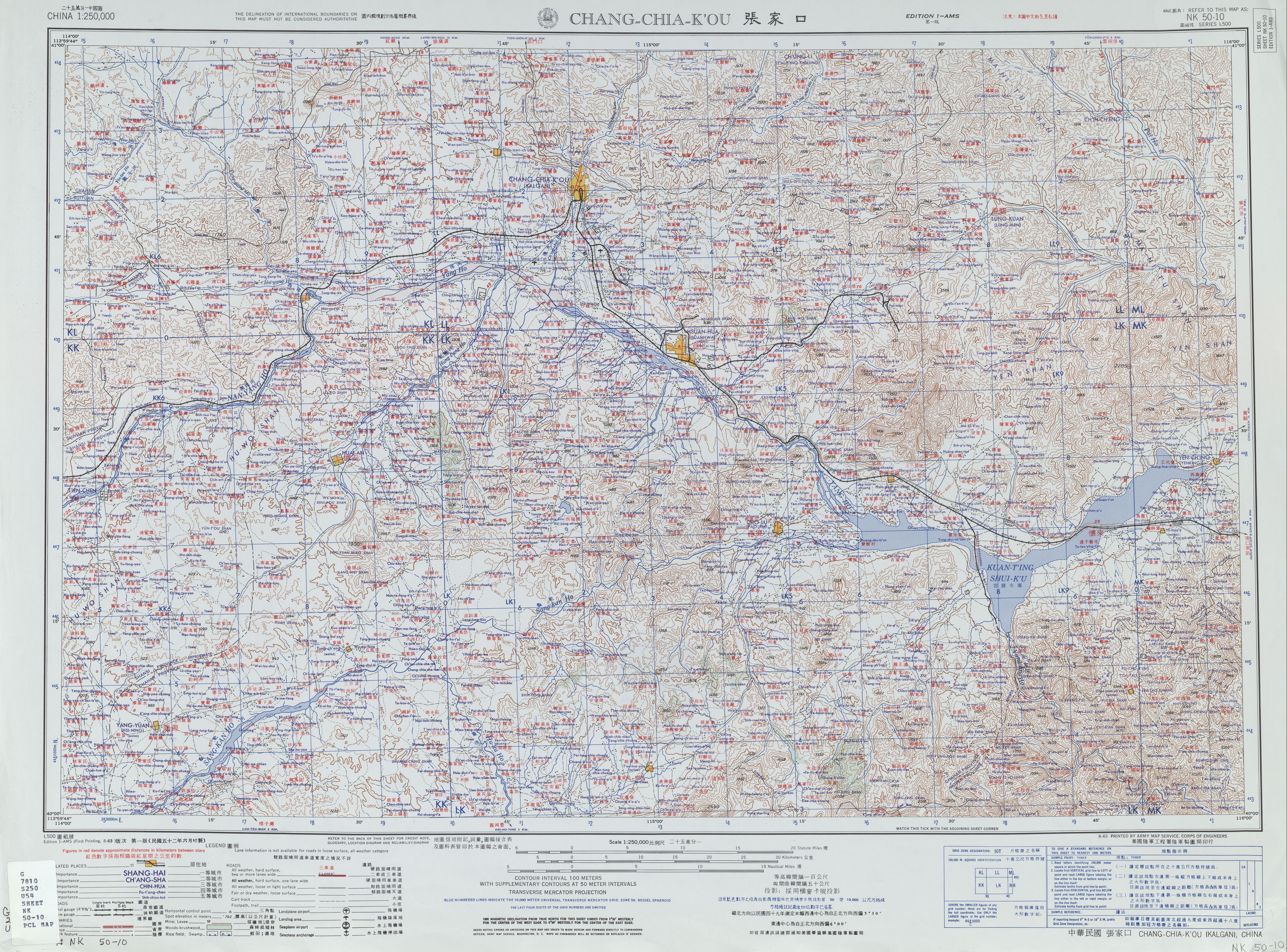 China AMS Topographic Maps